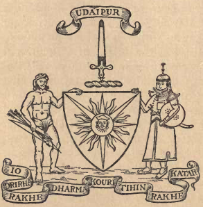 Coat of Arms of the Indian Princely State of Udaipur (which is frequently called Mewar)